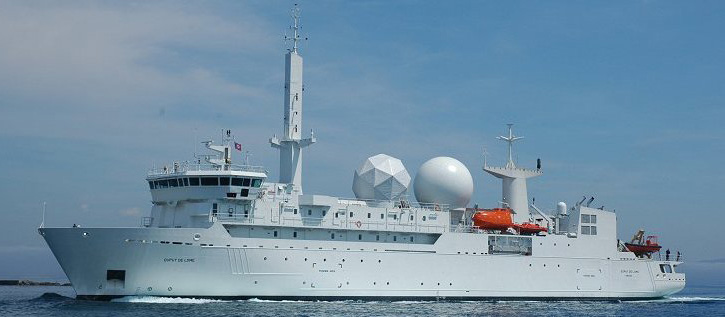 Cropped version of Image:Dupuy-de-Lome-photo10.jpg.